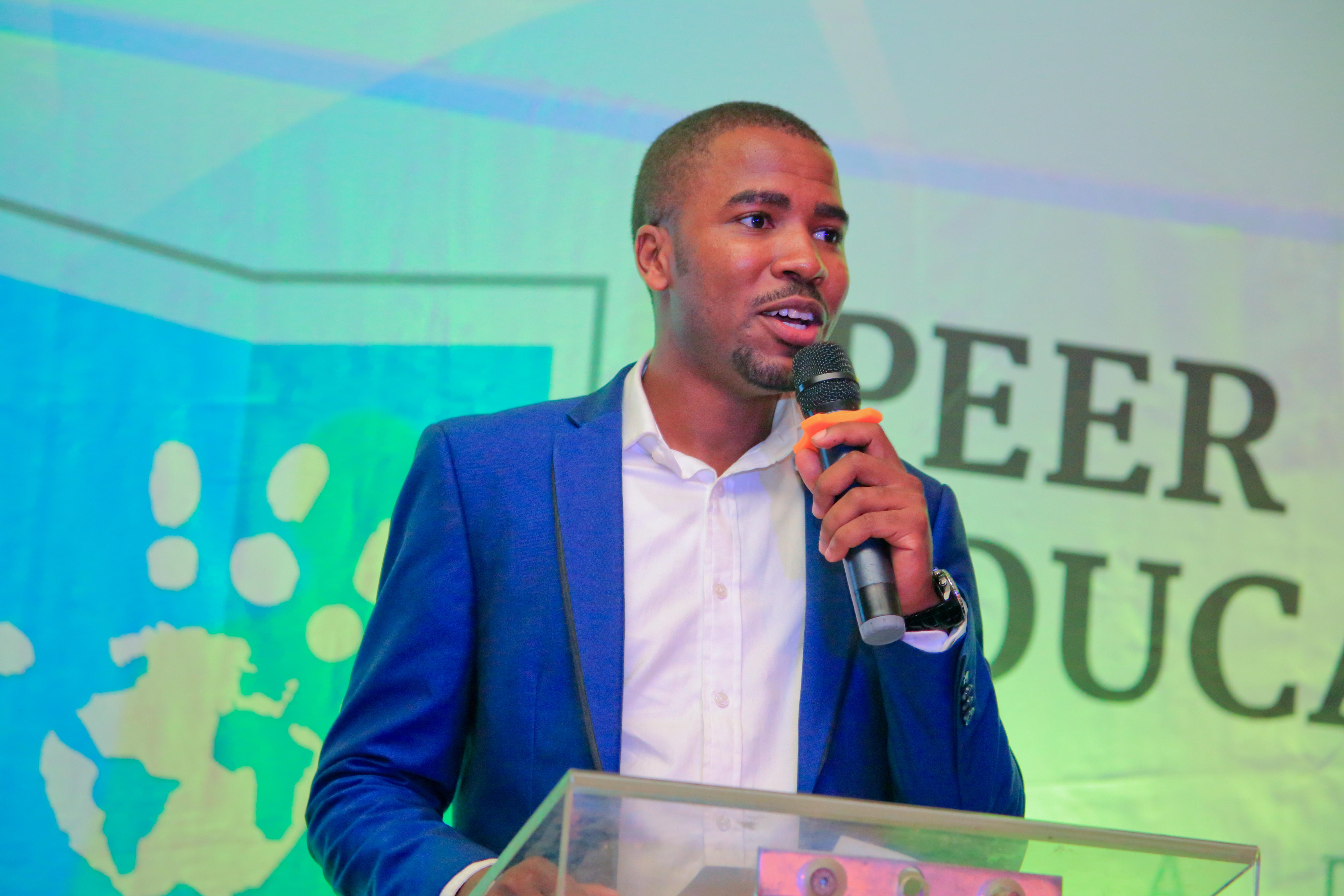 Humphrey Nabimanya at a peer educator seminar in Kampala